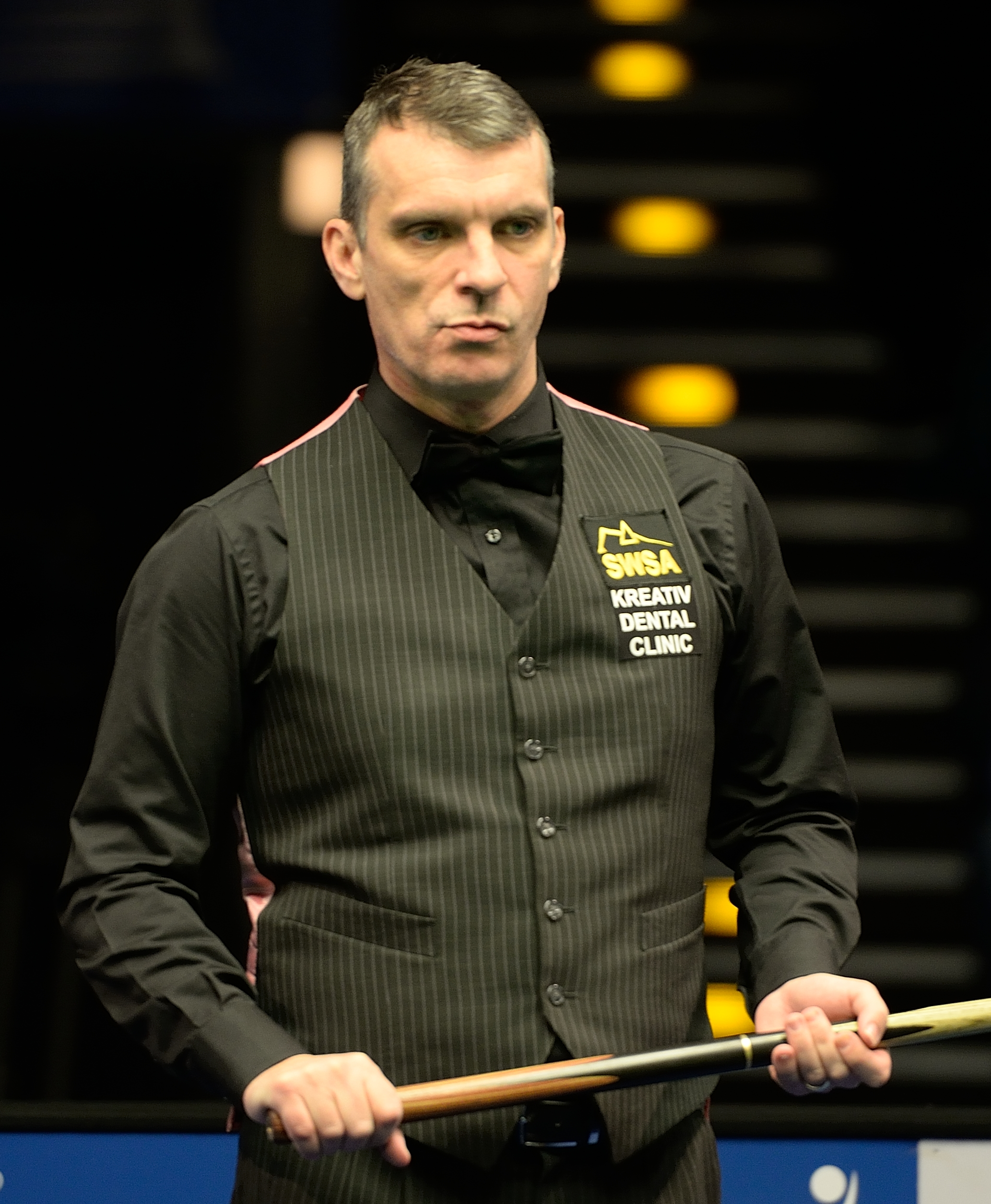 Picture taken in Berlin during the Snooker German Masters in 2015. Mark Davis.